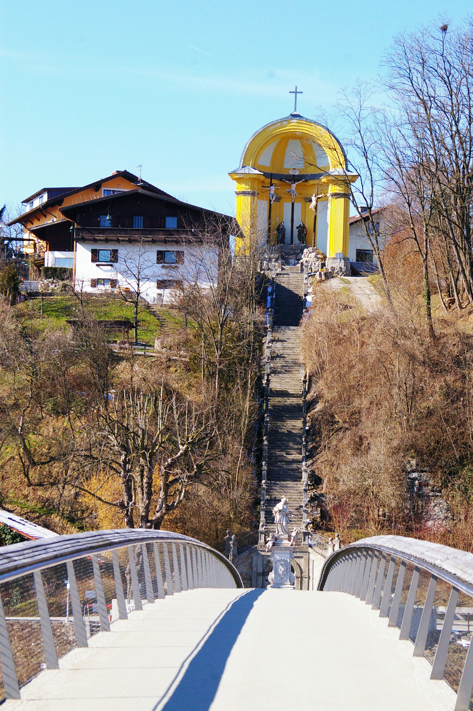 pedestrian bridge between Laufen and Oberndorf